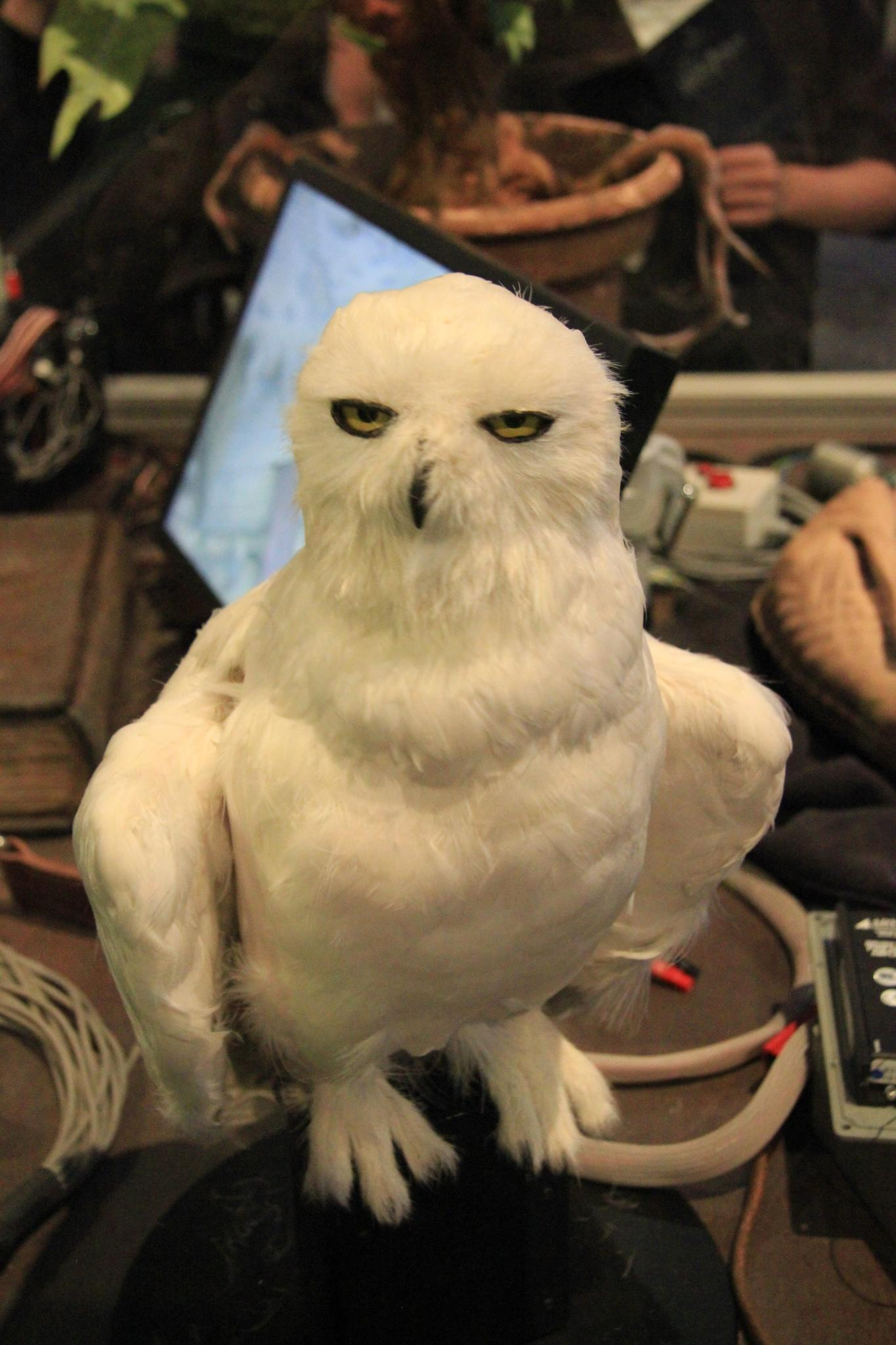 Warner Bros. Studio Tour London: The Making of Harry Potter.